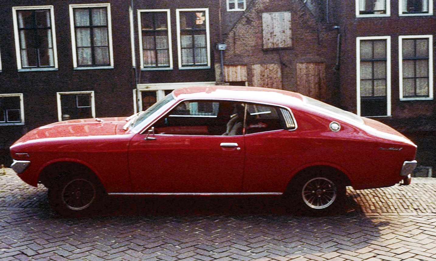 Toyota 'Corona II' second generation coupe in Leiden